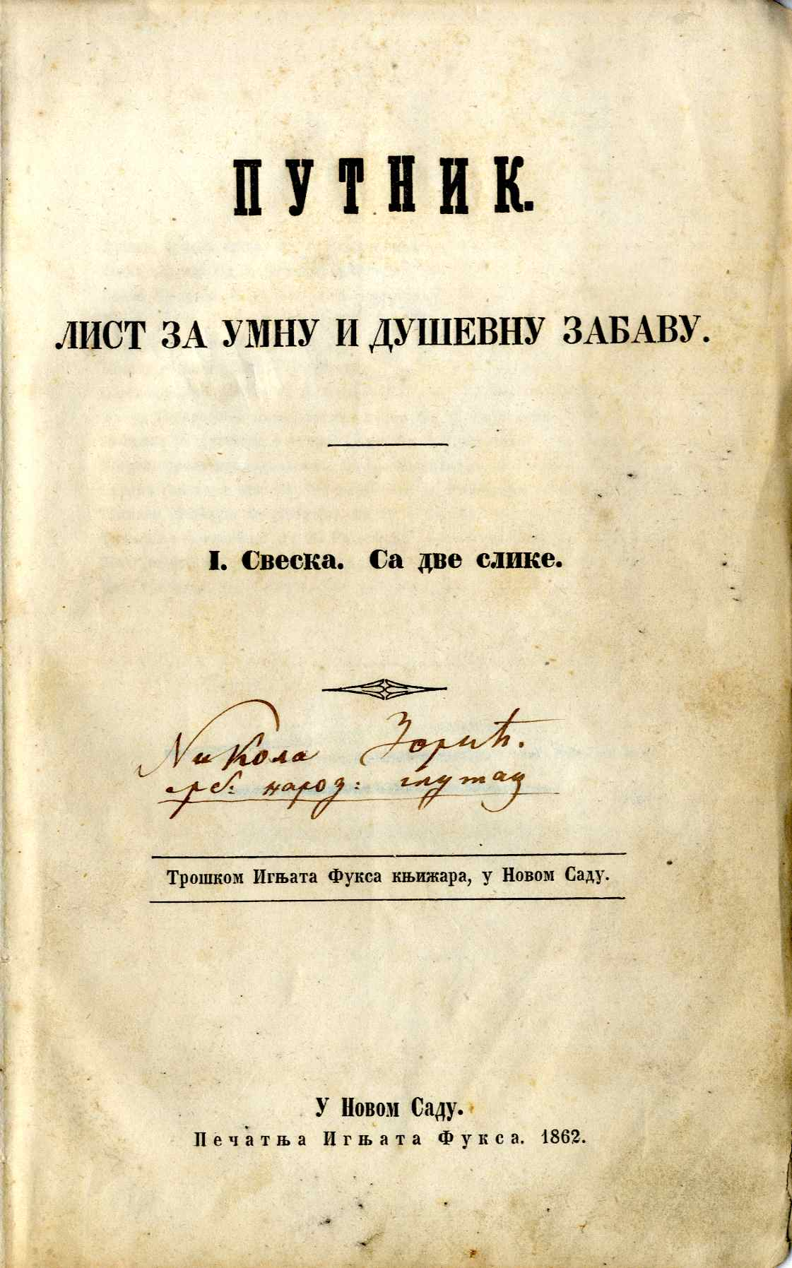 Cover of magazine Putnik, 1862. Srpski (latinica): Naslovna strana časopisa Putnik, sv. 1, god 1862. Novi Sad